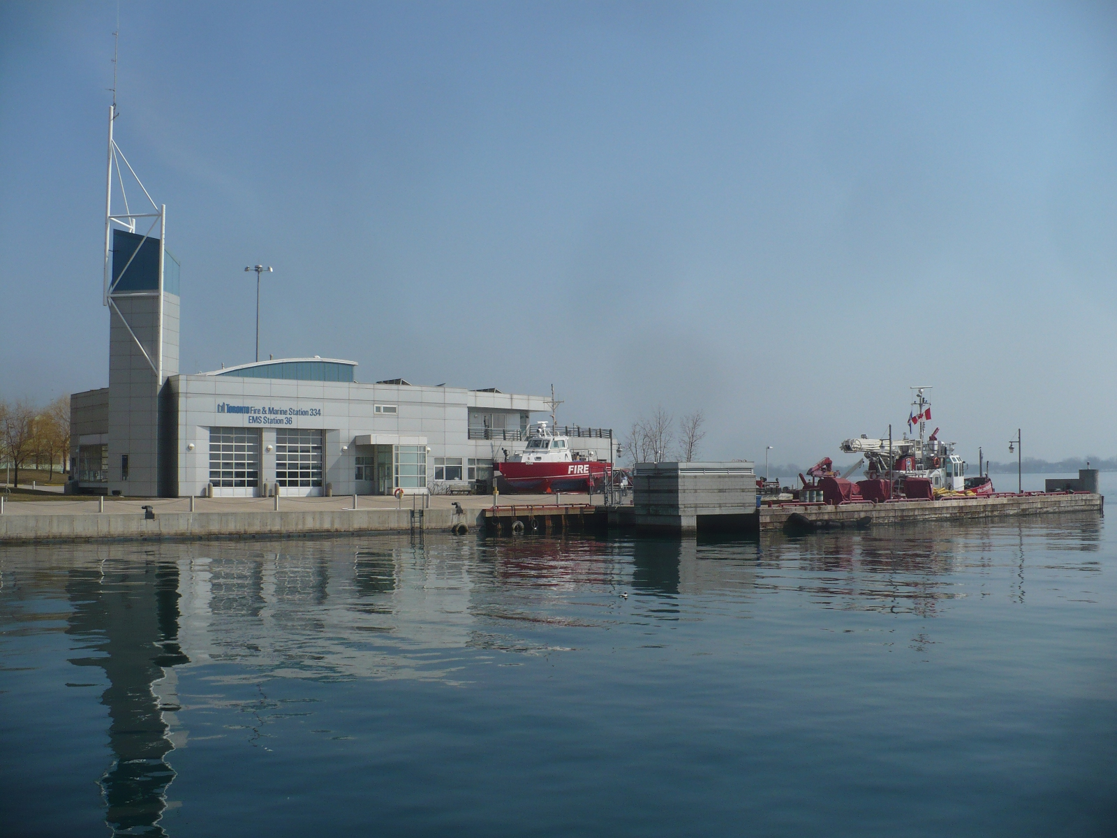 Toronto Fire & Marine Station 334, EMS Station 36